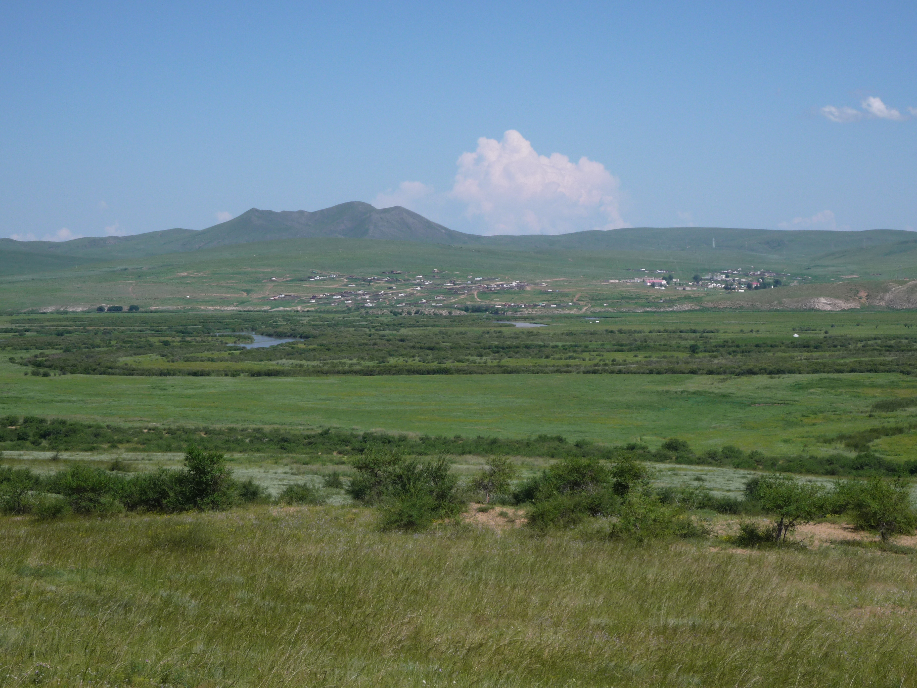 Orkhon sum centre (Selenge province, Mongolia). Picture made from the high sandy terrace of Orkhon river left bank